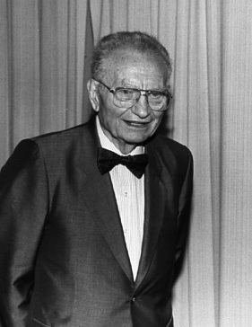 Paul A. Samuelson, an American economist. He was awarded The Nobel Prize in Economics, in 1970.